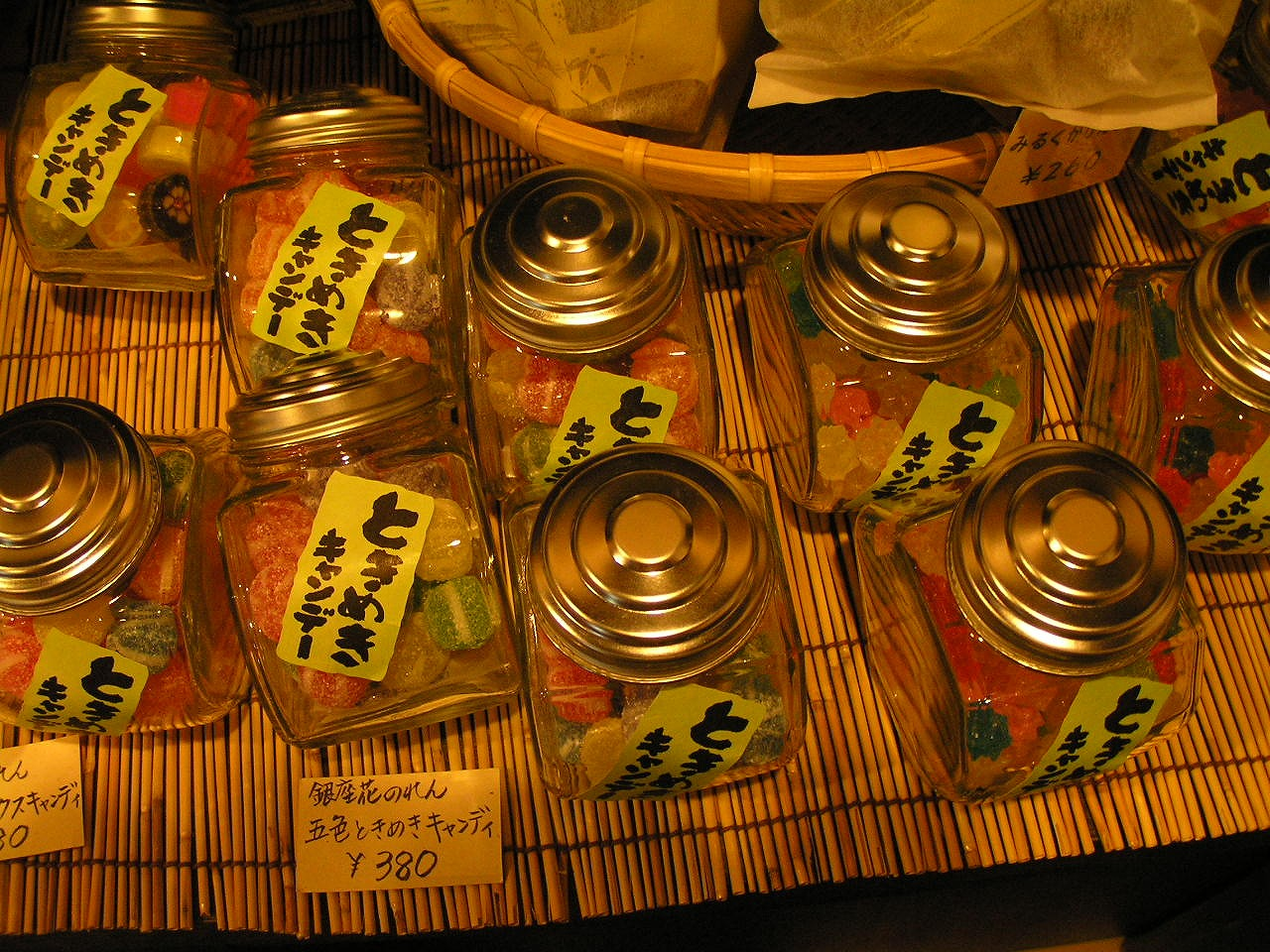 Throbbing candy